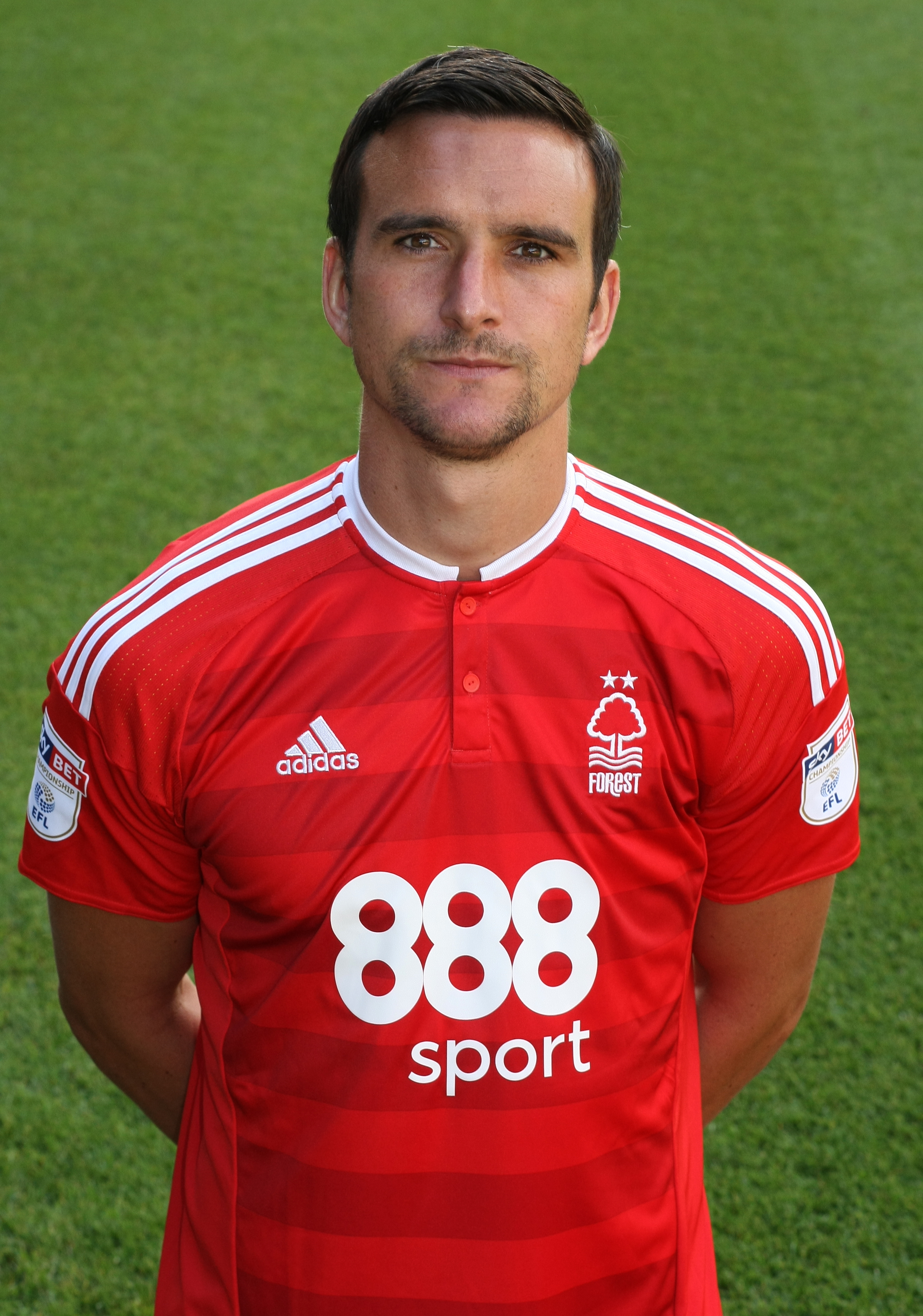 Jack Hobbs in Nottingham Forest kit, 2016